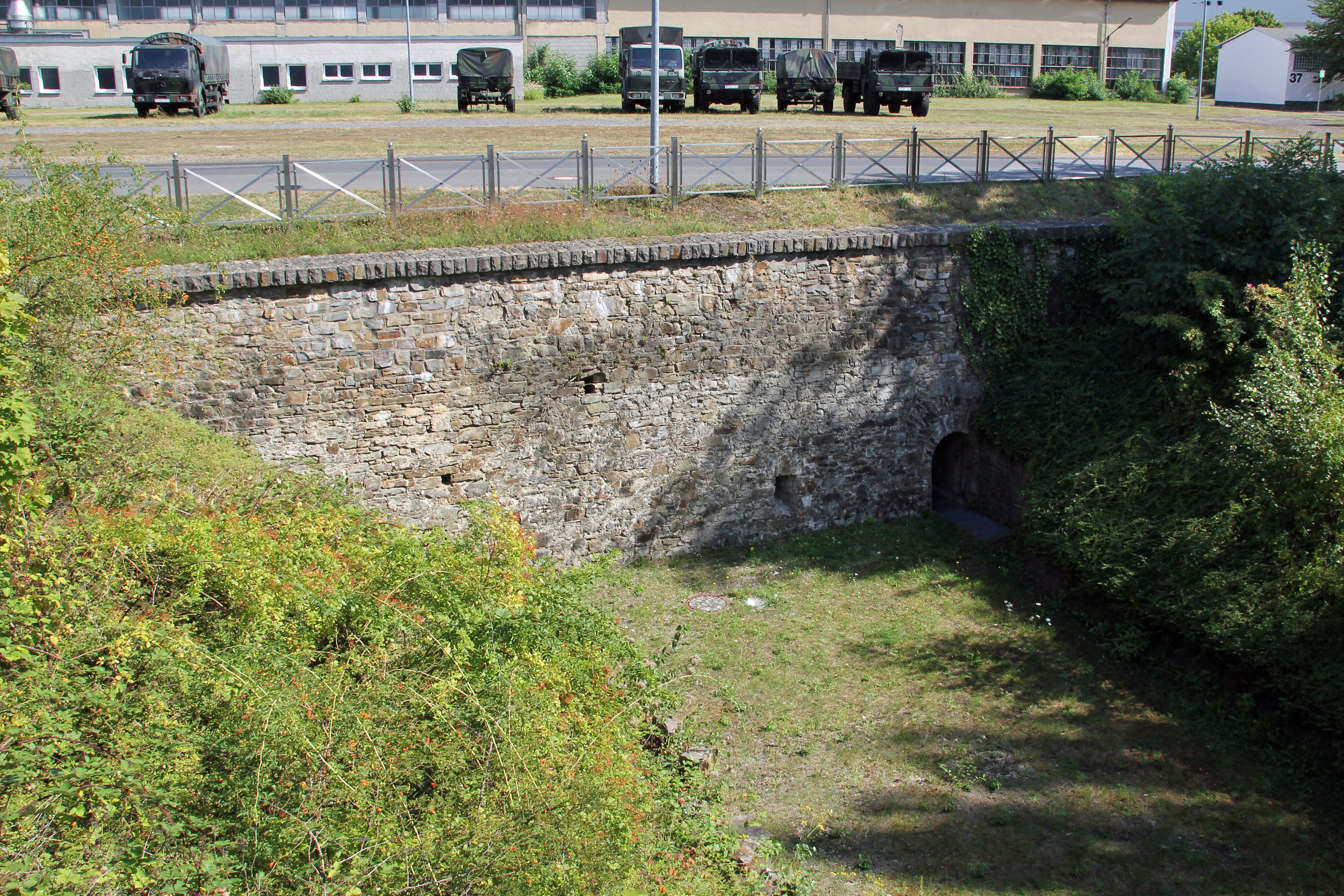 Neuendorfer Flesche in Koblenz